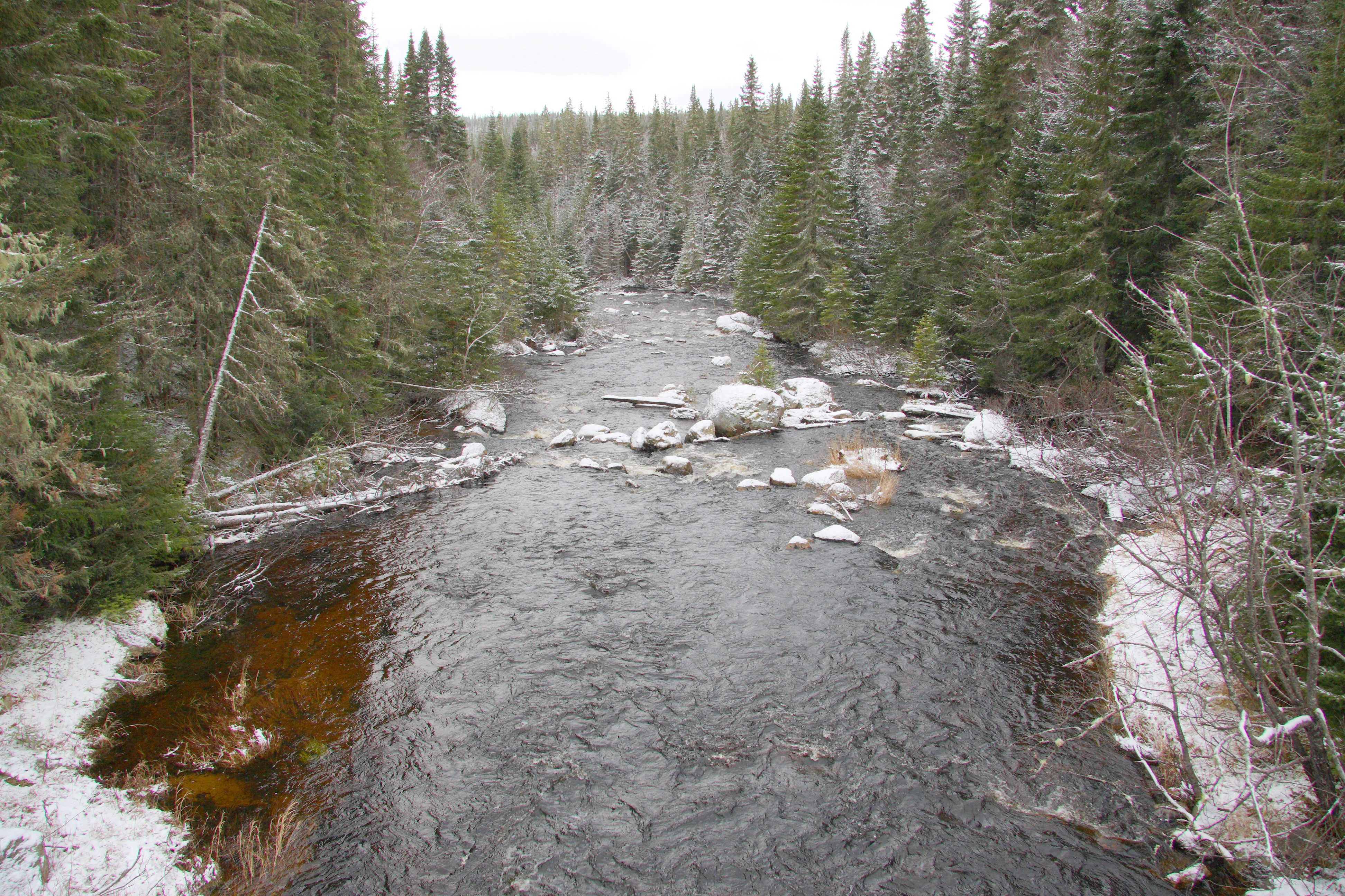 Sautauriski river lined by white spruces, Jacques-Cartier National Park, Quebec, Canada